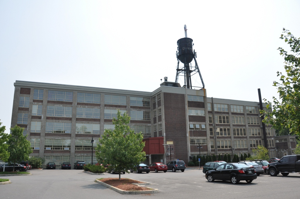 The former Dennison Manufacturing Co. Paper Box Factory in Marlborough, Massachusetts; since converted to residences.